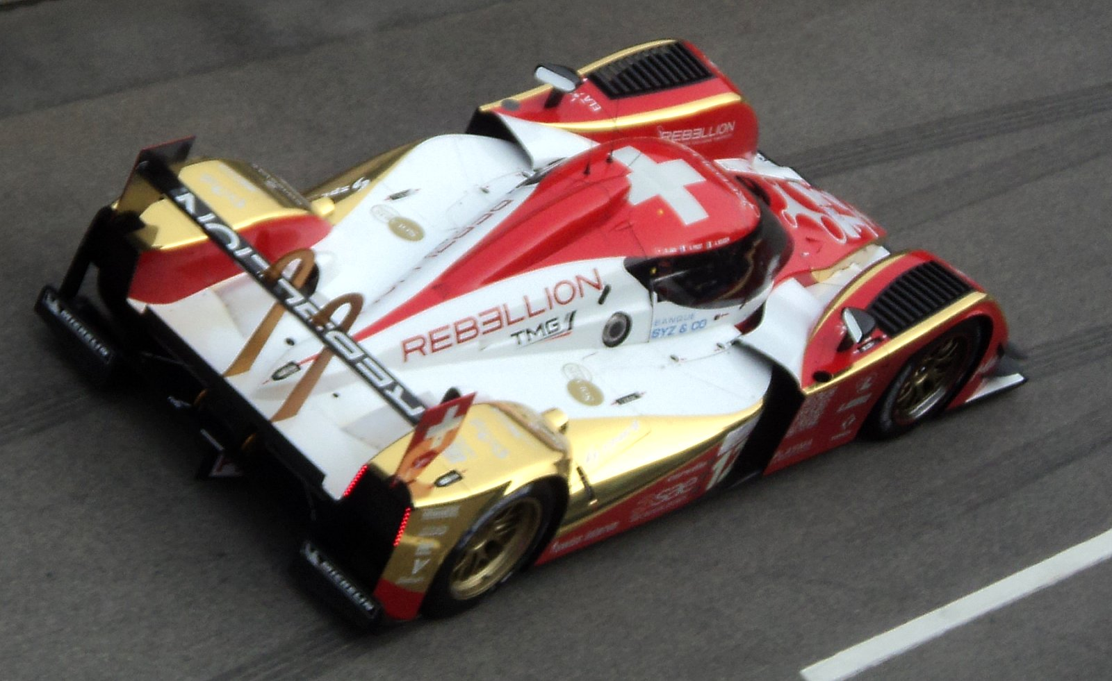 Rebellion Racing's Lola B10/60 Toyota at Zhuhai International Circuit.